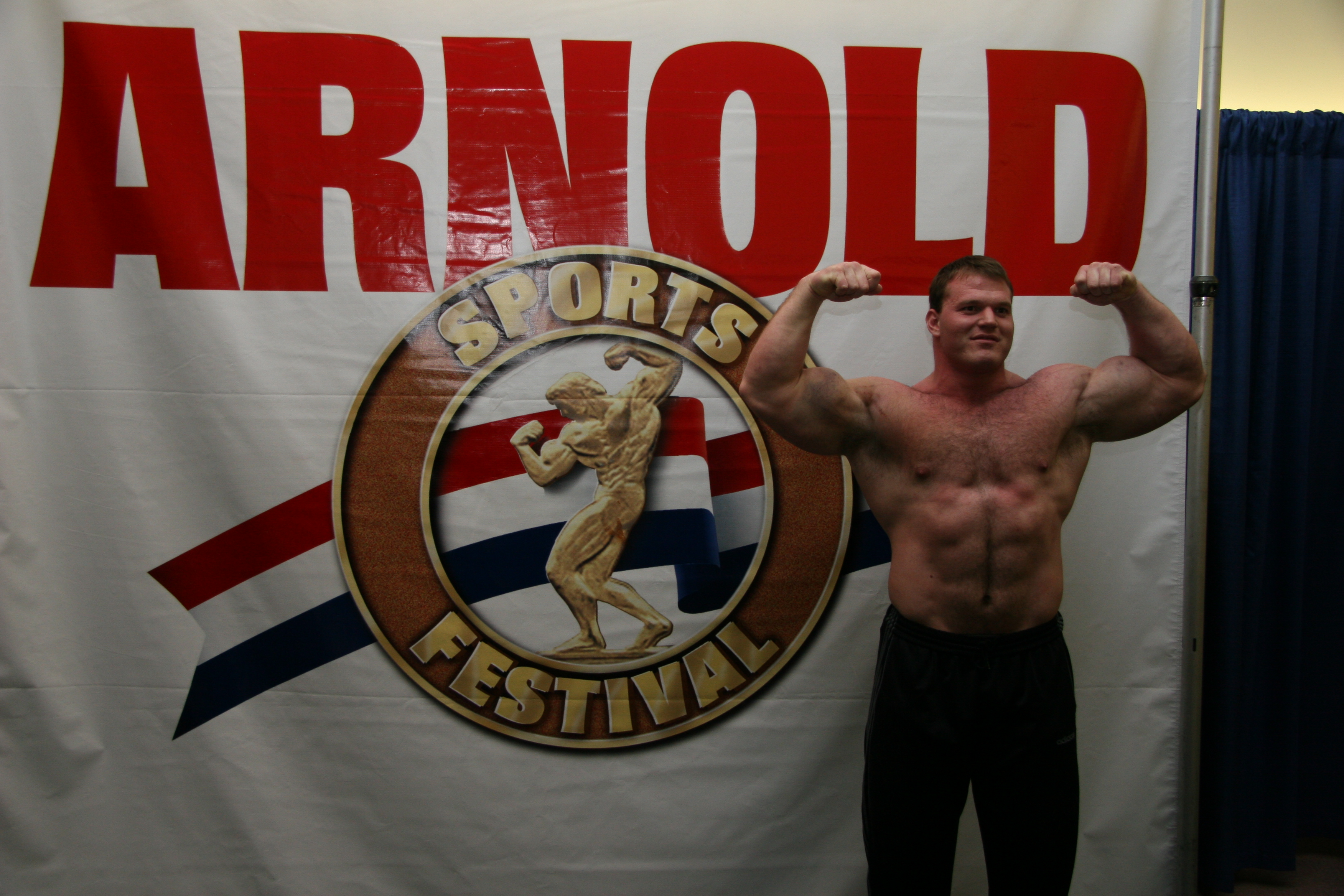 Derek Poundstone during Arnold Strongman Classic 2008. Columbus, Ohio.